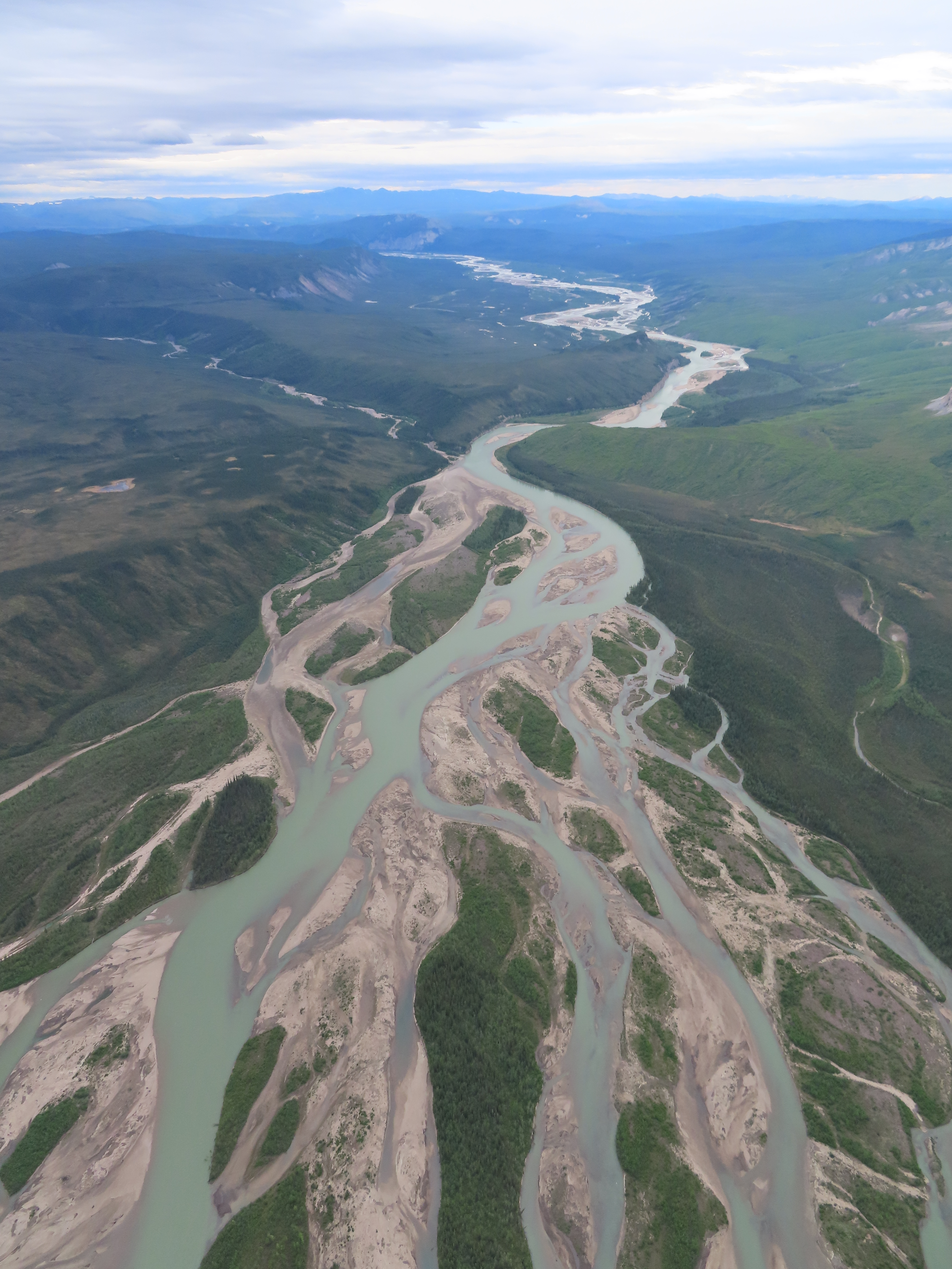 The braided channel of the Keele River directly above Summit Creek, Northwest Territories, Canada.